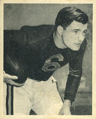 1948 Bowman baseball card of Don Kindt of the Chicago Bears #23. PD-not-renewed.